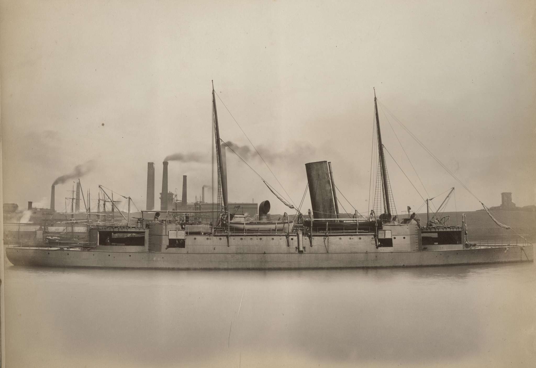 The Chinese Cruiser Tshao Yong